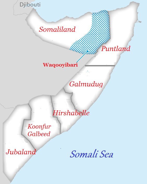 Somali federal